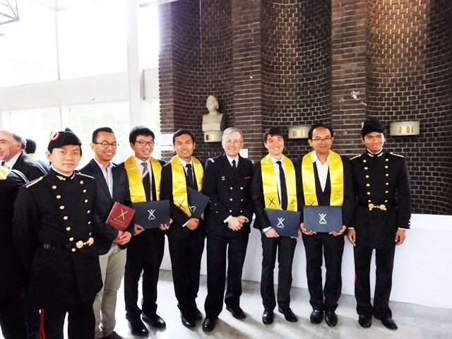 Ex-ITC student graduated